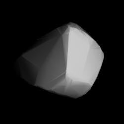 3D convex shape model of 347 Pariana, computed using light curve inversion techniques. J. Hanuš, J. Ďurech, M. Brož, B. D. Warner (June 2011). "A study of asteroid pole-latitude distribution based on an extended set of shape models derived by the lightcurve inversion method". Astronomy and Astrophysics 530: A134. ISSN 0004-6361. arXiv